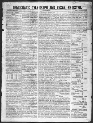 This is a scan of the front page of the Democratic Telegraph and Texas Register, published in Houston Texas on April 8, 1846. At this time Texas was a part of the United States. Official newspaper citation: Democratic Telegraph and Texas Register (Houston, Tex.), Vol. 11, No. 14, Ed. 1, Wednesday, April 8, 1846